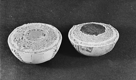 Halves of two baseballs, illustrating the composition of the balls. On the left, a traditional cork-centered ball, and on the right, a rubber-centered ball used during World War II. The rubber centers, borrowed from golf balls, were used due to wartime material shortages.